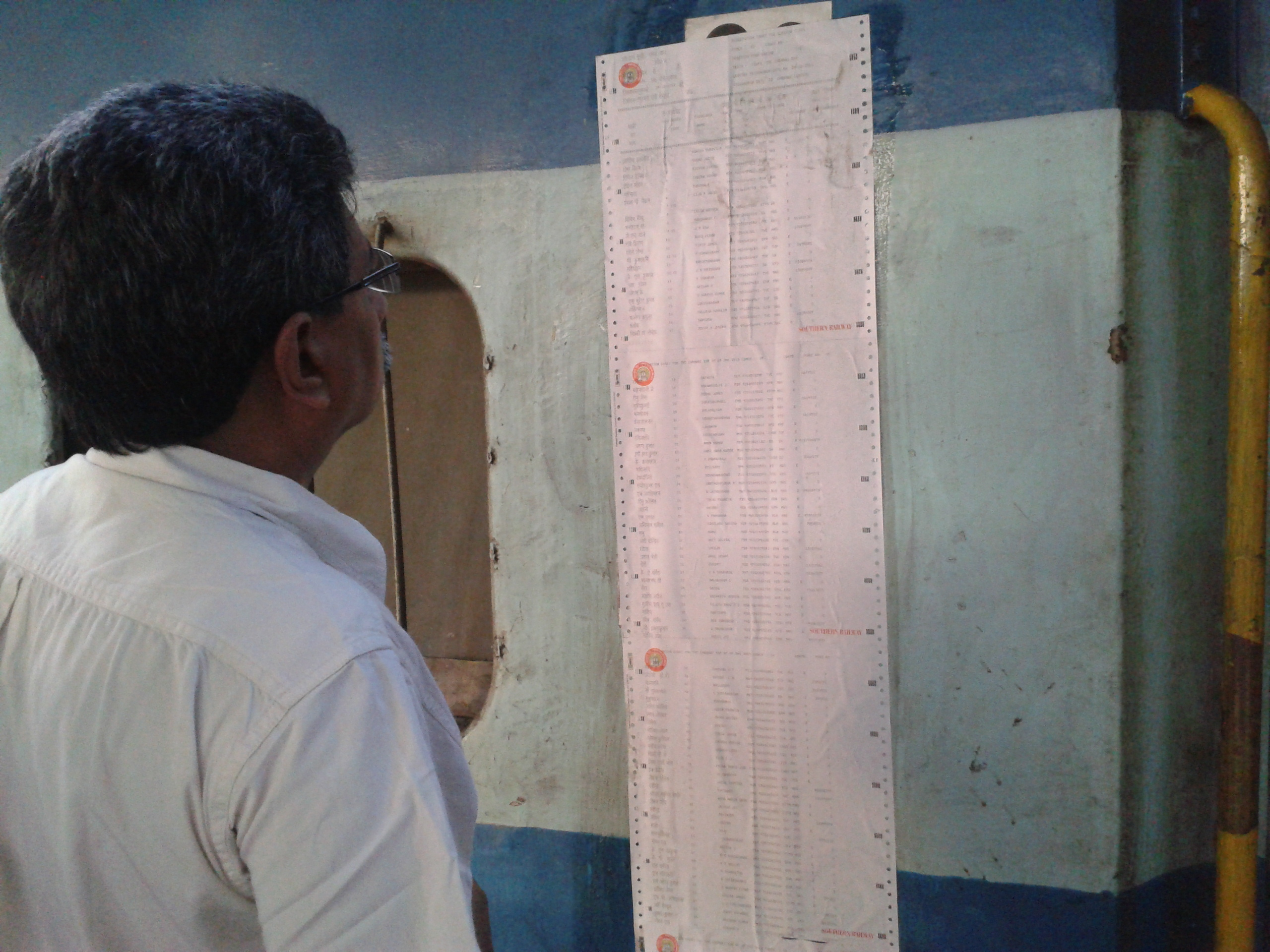 reservation list in Indian train compartment